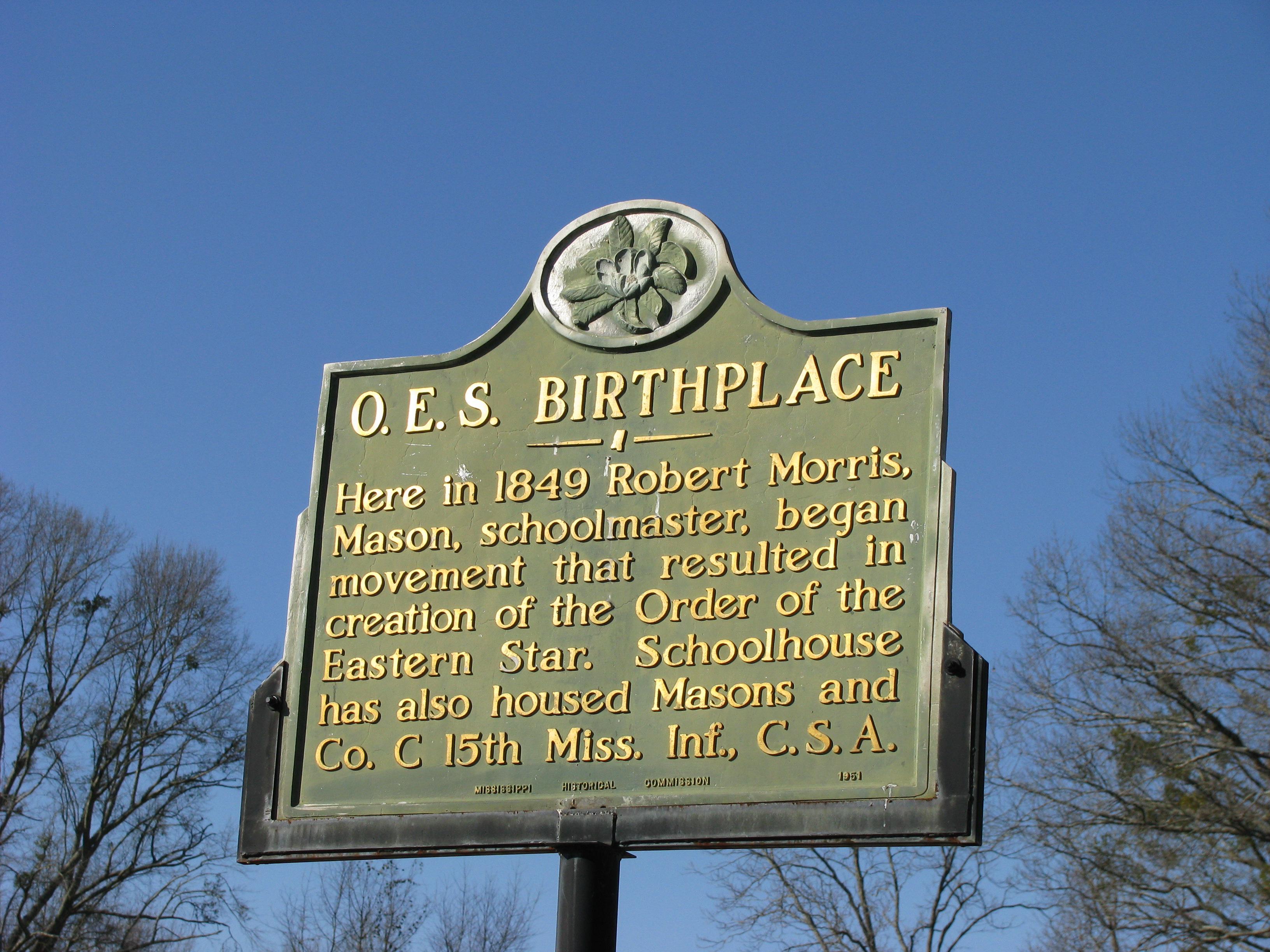 Sign: Order of Eastern Star Birthplace. Eureka Masonic College (The Little Red School House) in Holmes County, Mississippi.